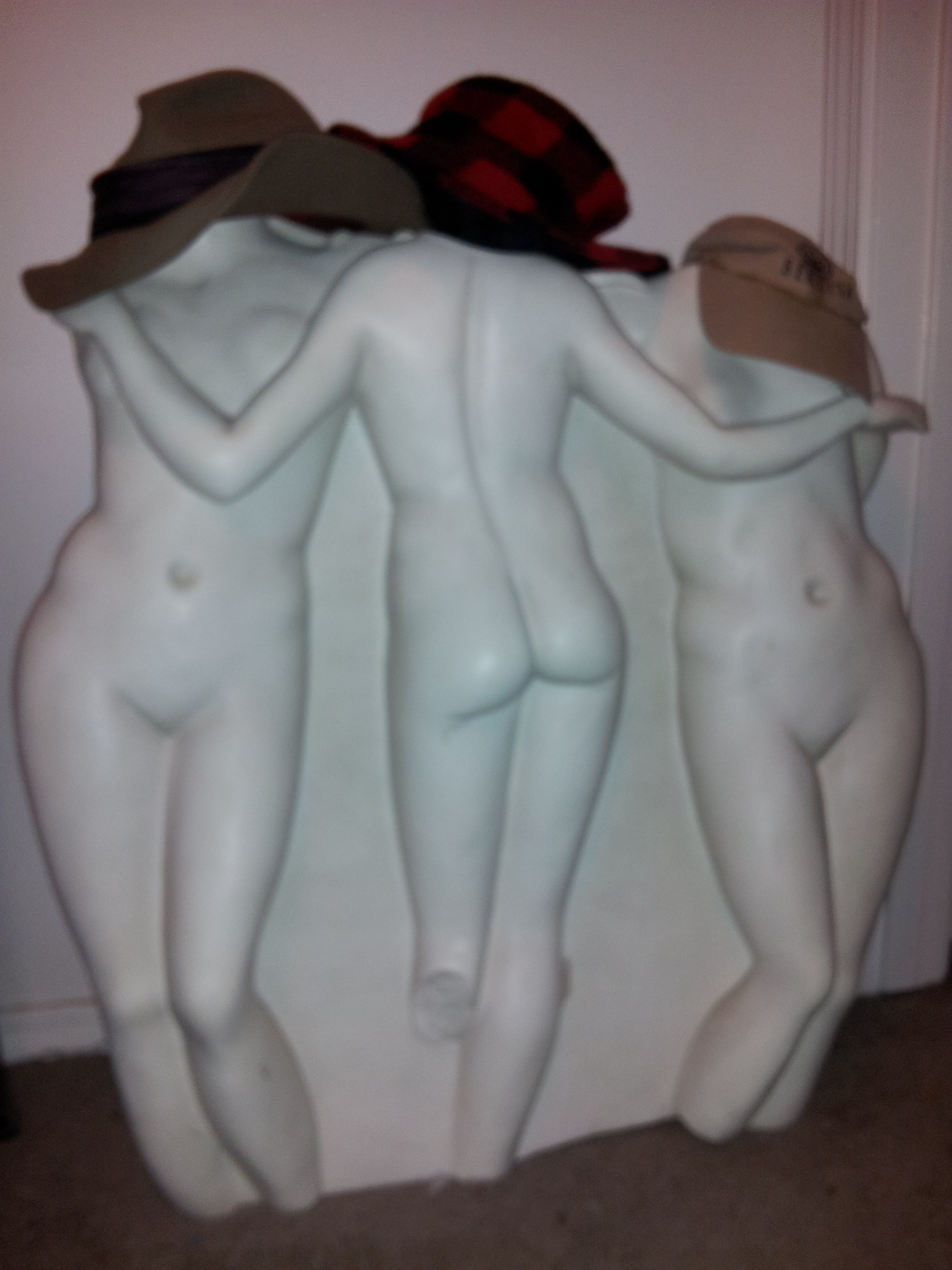 Pop culture usage of Raphael's Three Graces.